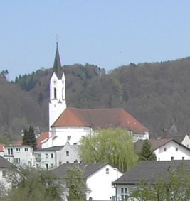 Marktl am Inn (South-East Bavaria), catholic parish church St. Oswald, photo by Alexander Z., 2005-04-23